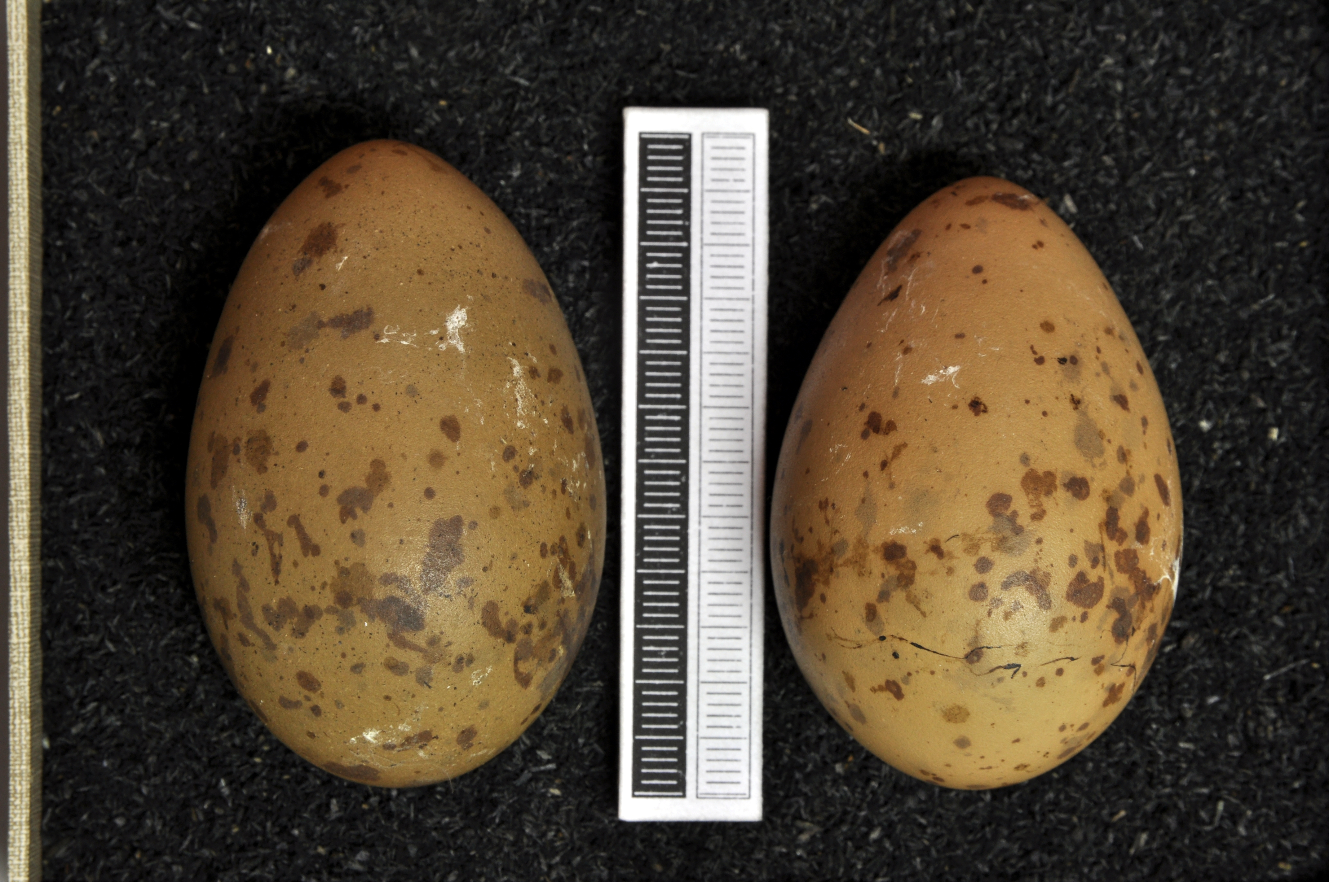 Long-tailed jaeger Stercorarius longicaudus , egg, Coll. Museum Wiesbaden